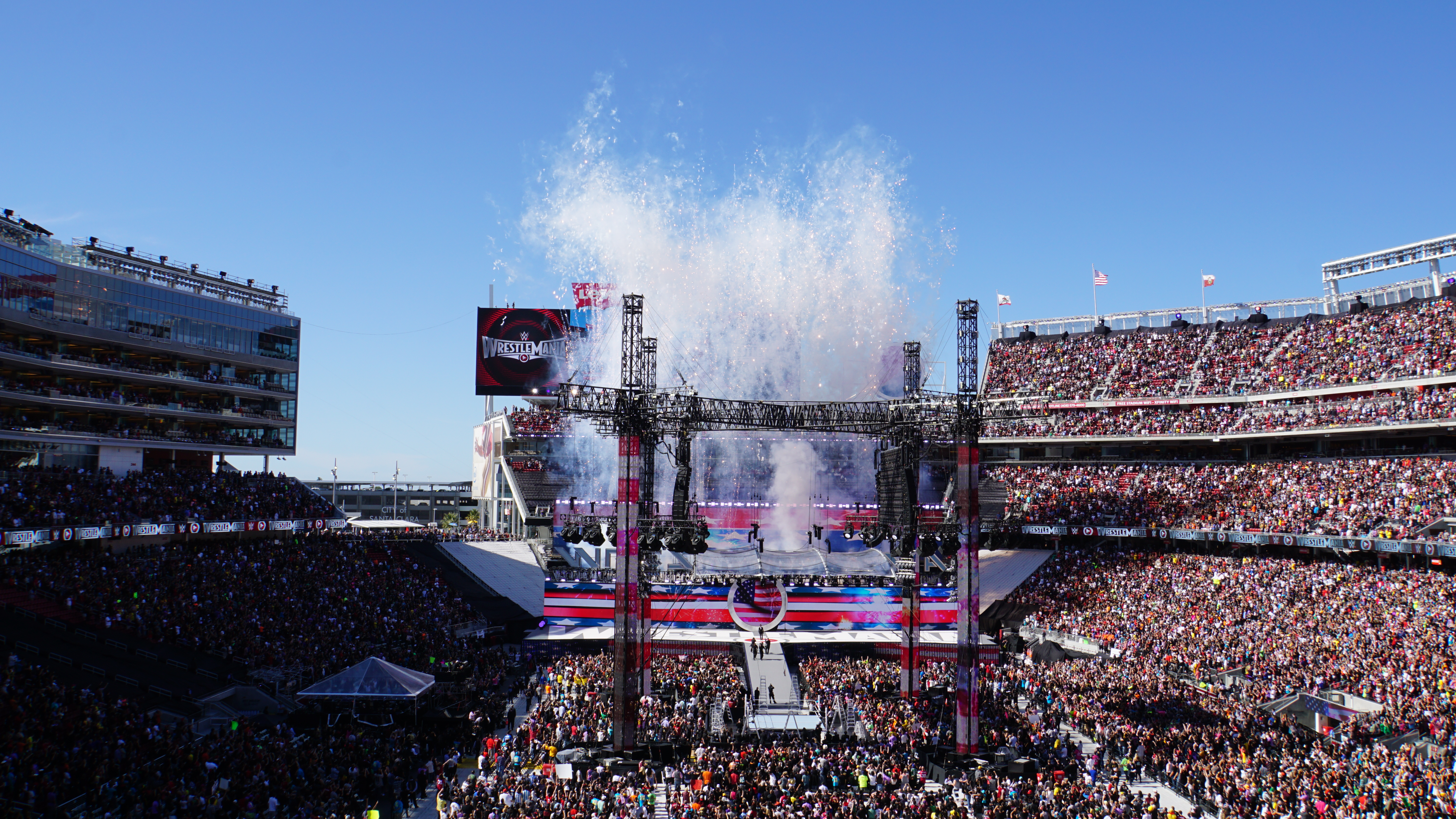 2015-03-29_16-01-59_ILCE-6000_DSC06083